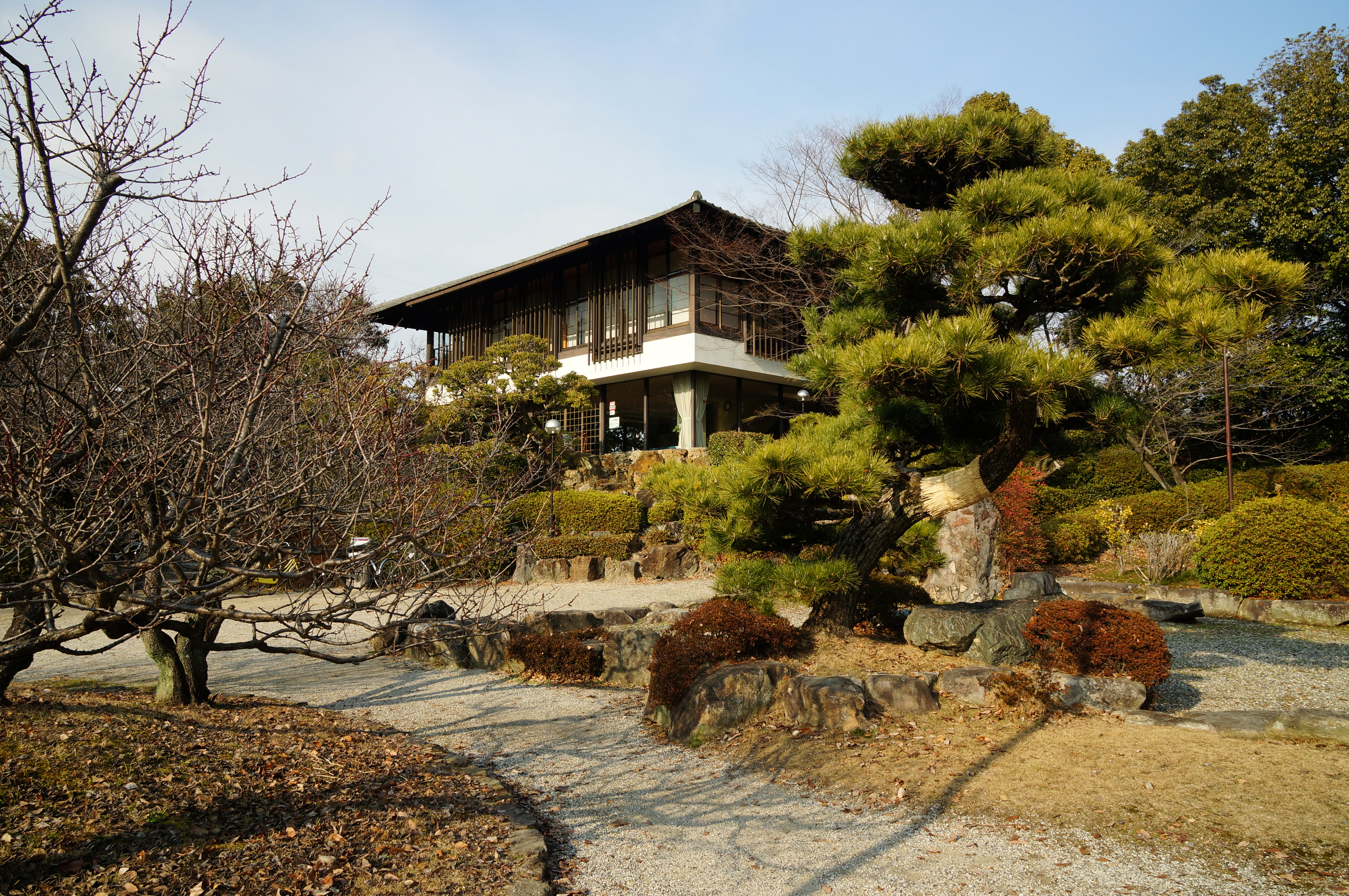 Kijo Park in Kariya, Aichi prefecture, Japan.